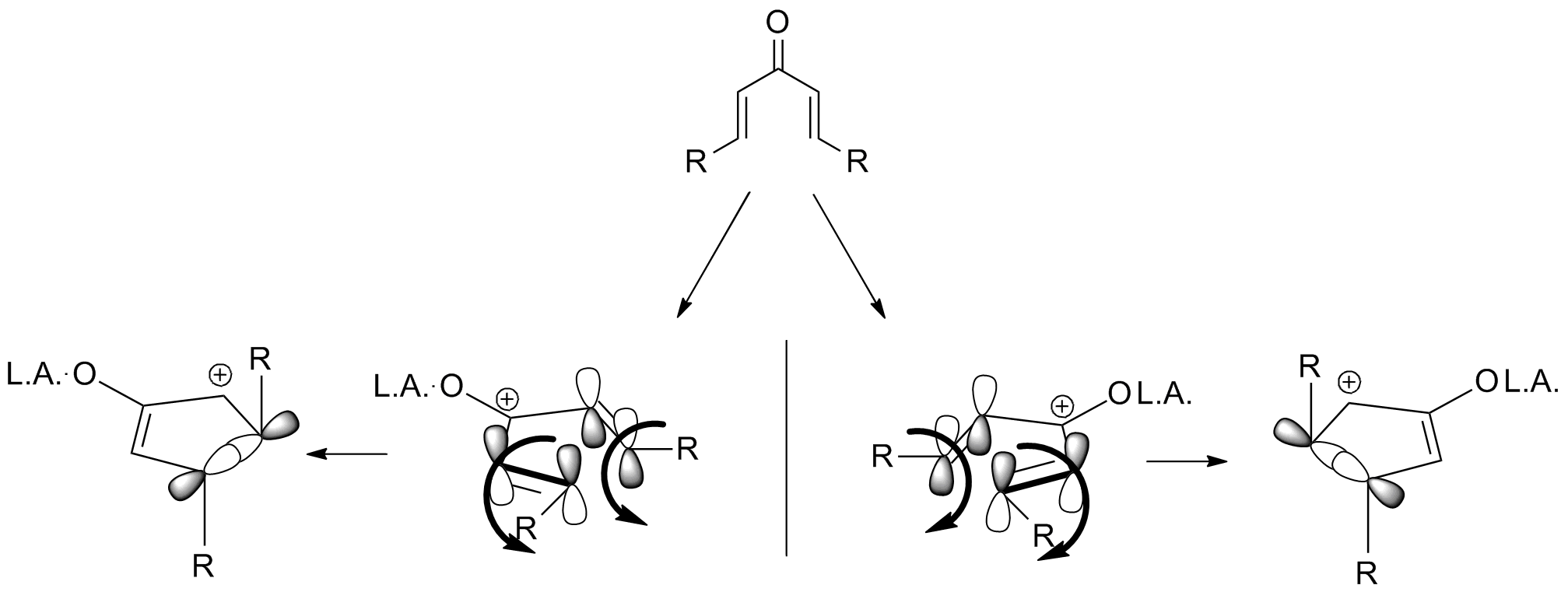 torquoselectivity